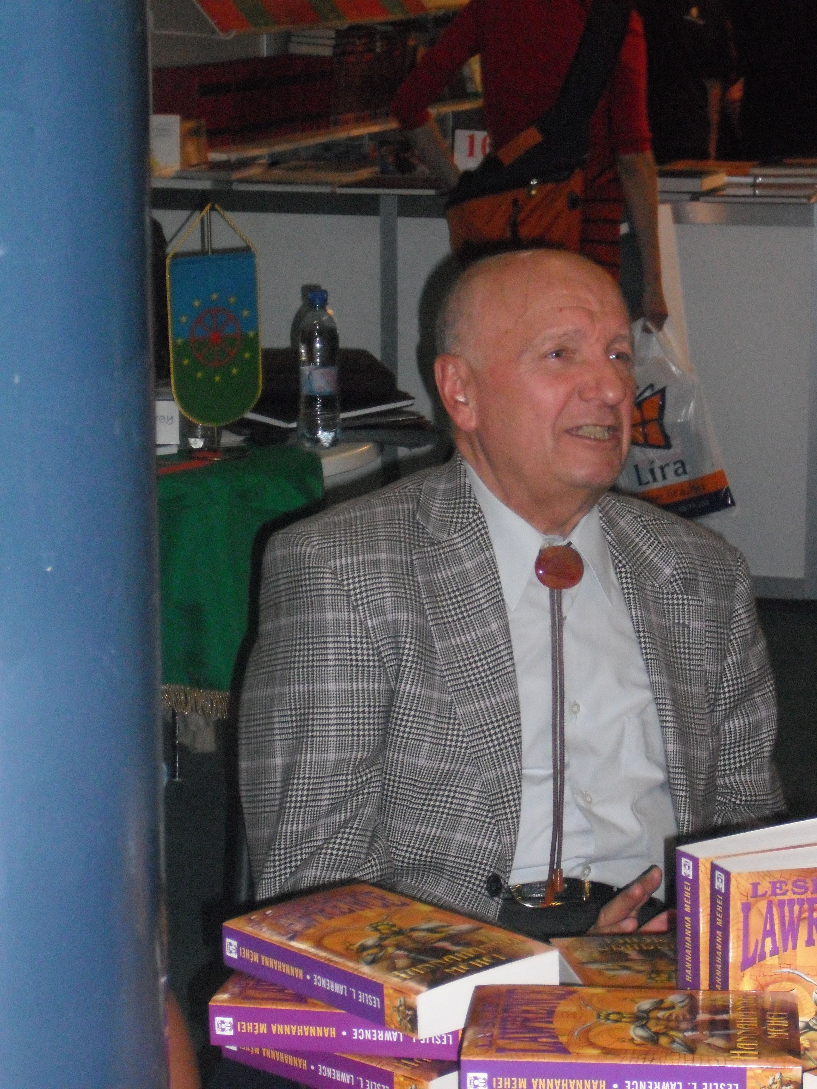 László L. Lőrincz (Leslie L. Lawrence), Hungarian orientalist, bestseller author at the 2010 Budapest Book Festival